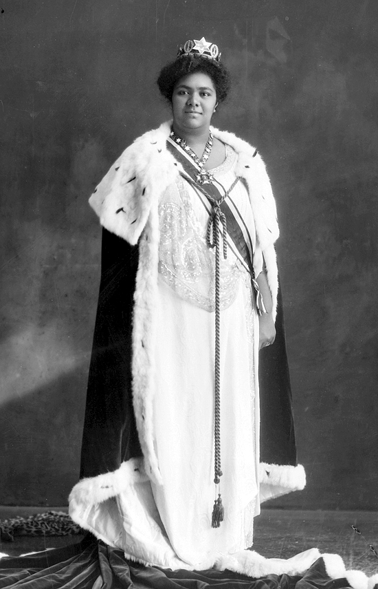 Salote Tupou III in her coronation robe. Full length portrait of the Queen of Tonga wearing a crown, necklace, light coloured dress, dark coloured long velvet cloak edged in fur.